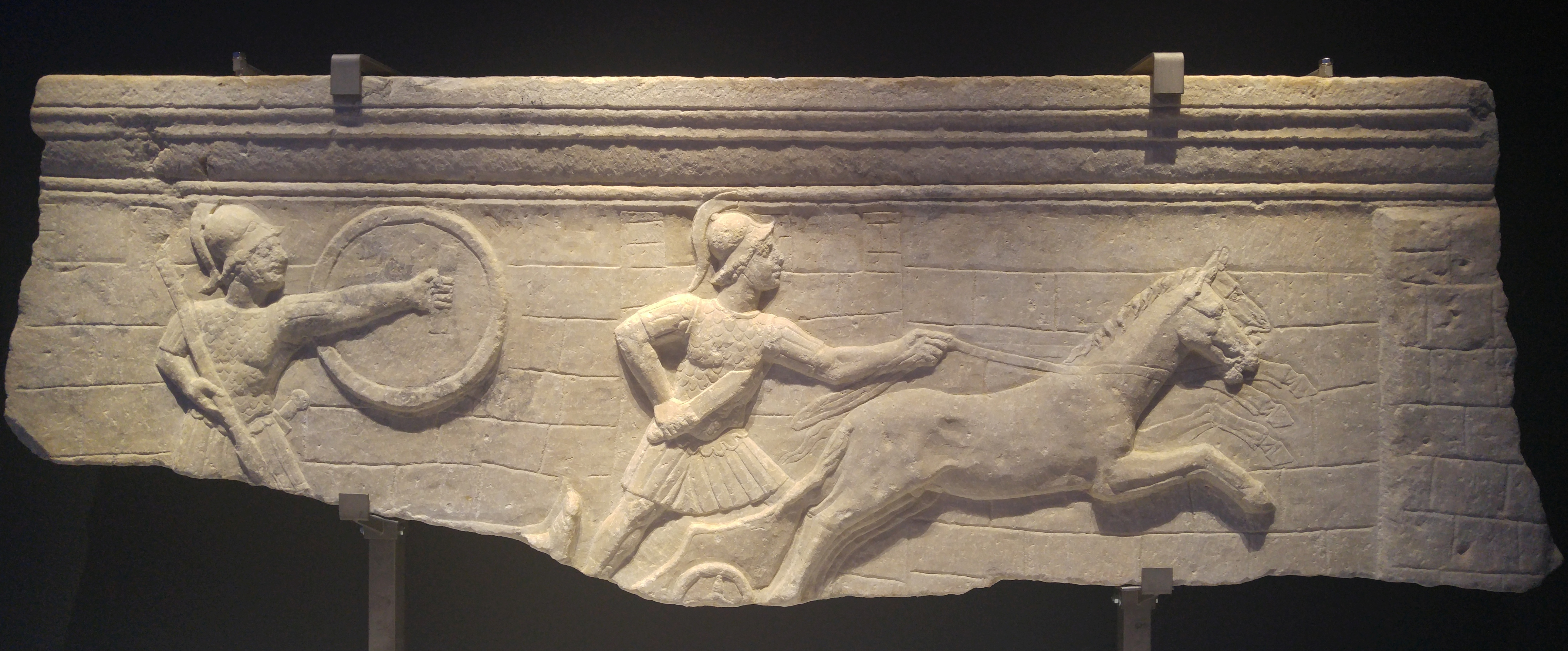 Sarcophagus fragment of Achilles dragging Hector around the walls of Troy / Troja (Marble, Episkopal Palace, 138 A.D., Archaeological Museum of Tegea, 2017, exhibit 3)